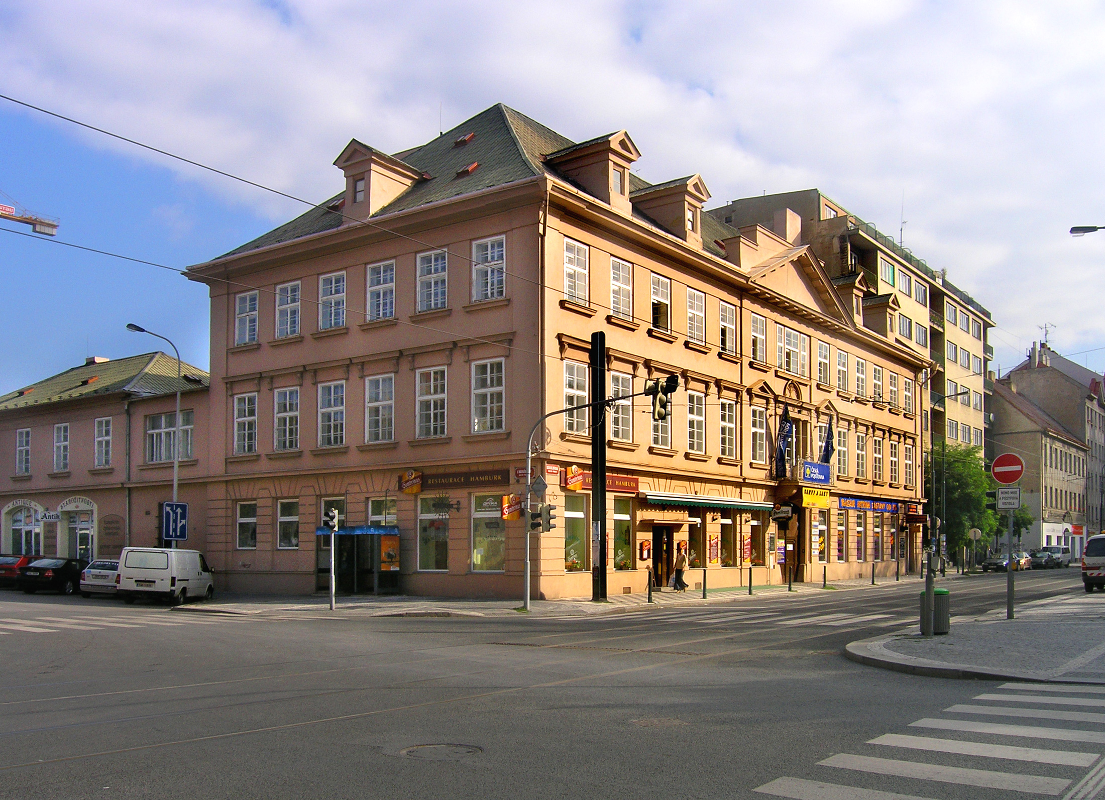 Sokolovská street in Karlín, Prague